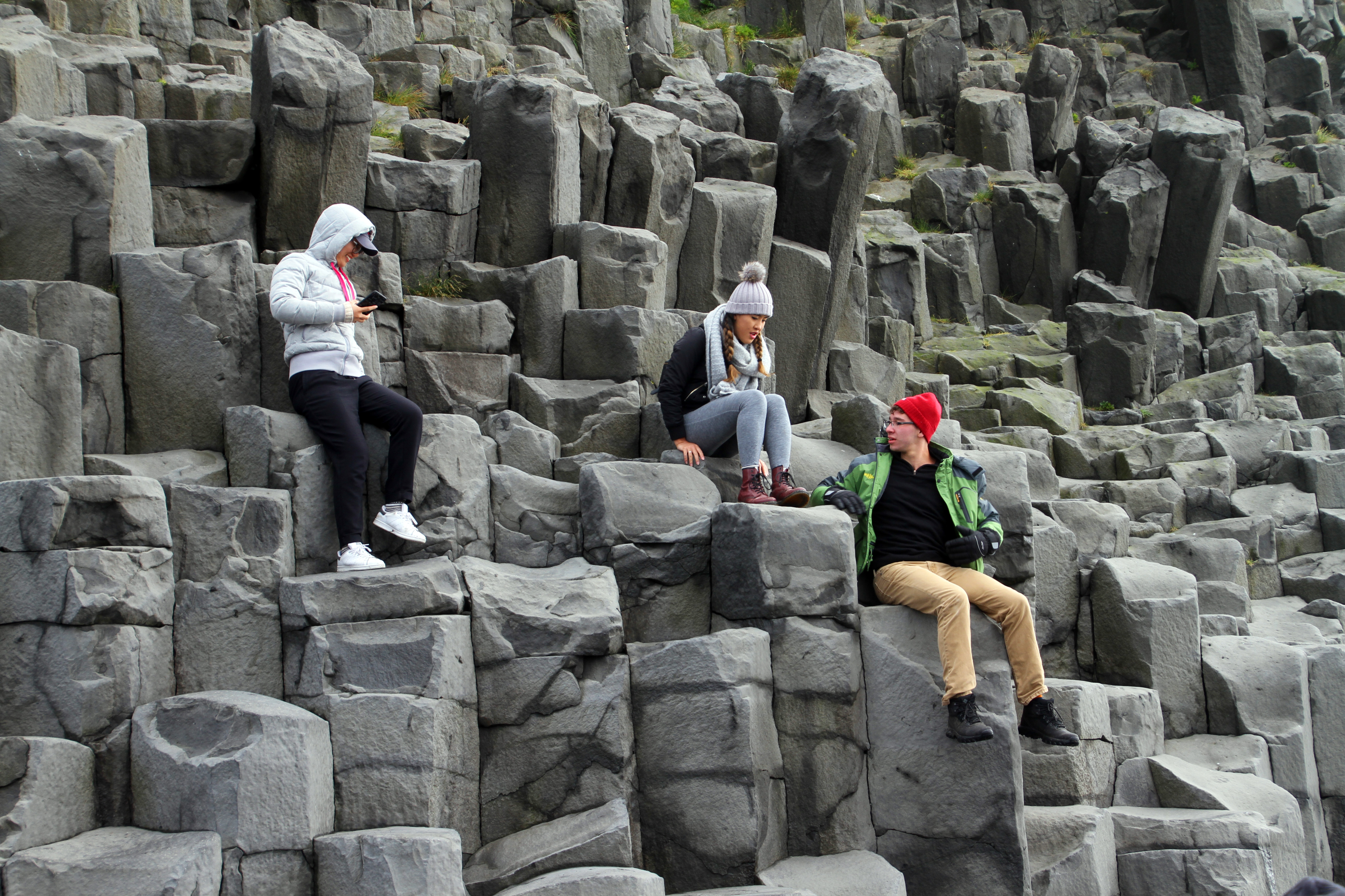 Columnar basalts at Reynisfjara